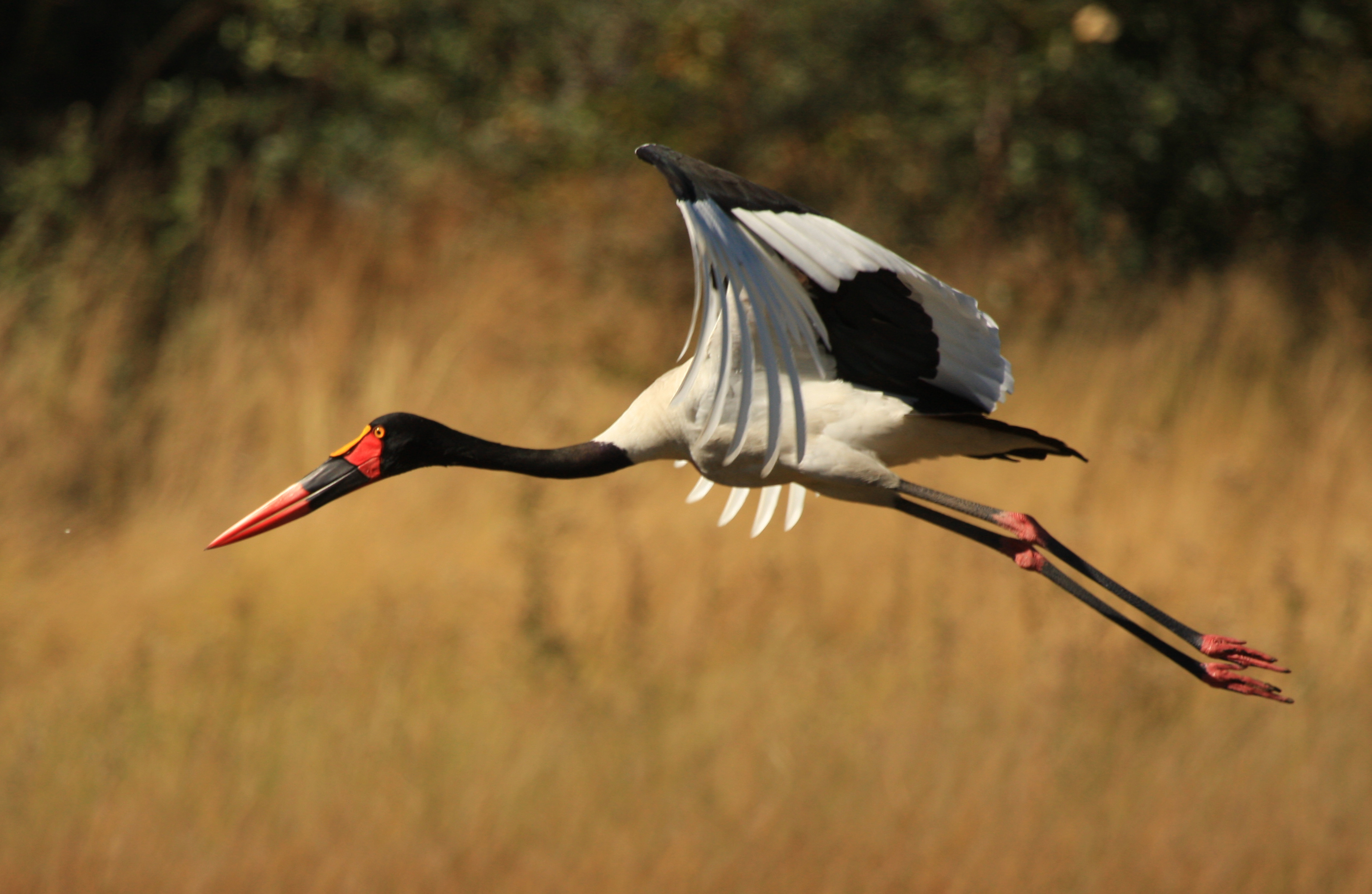 Saddle-billed Stork in flight in Botswana, Africa